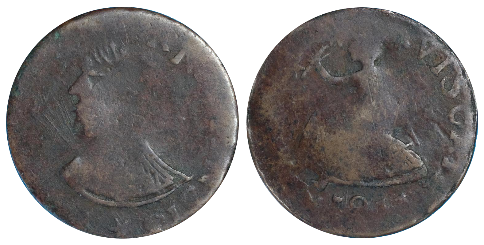 Robert Hazen for the Breton 559, VC-3 image